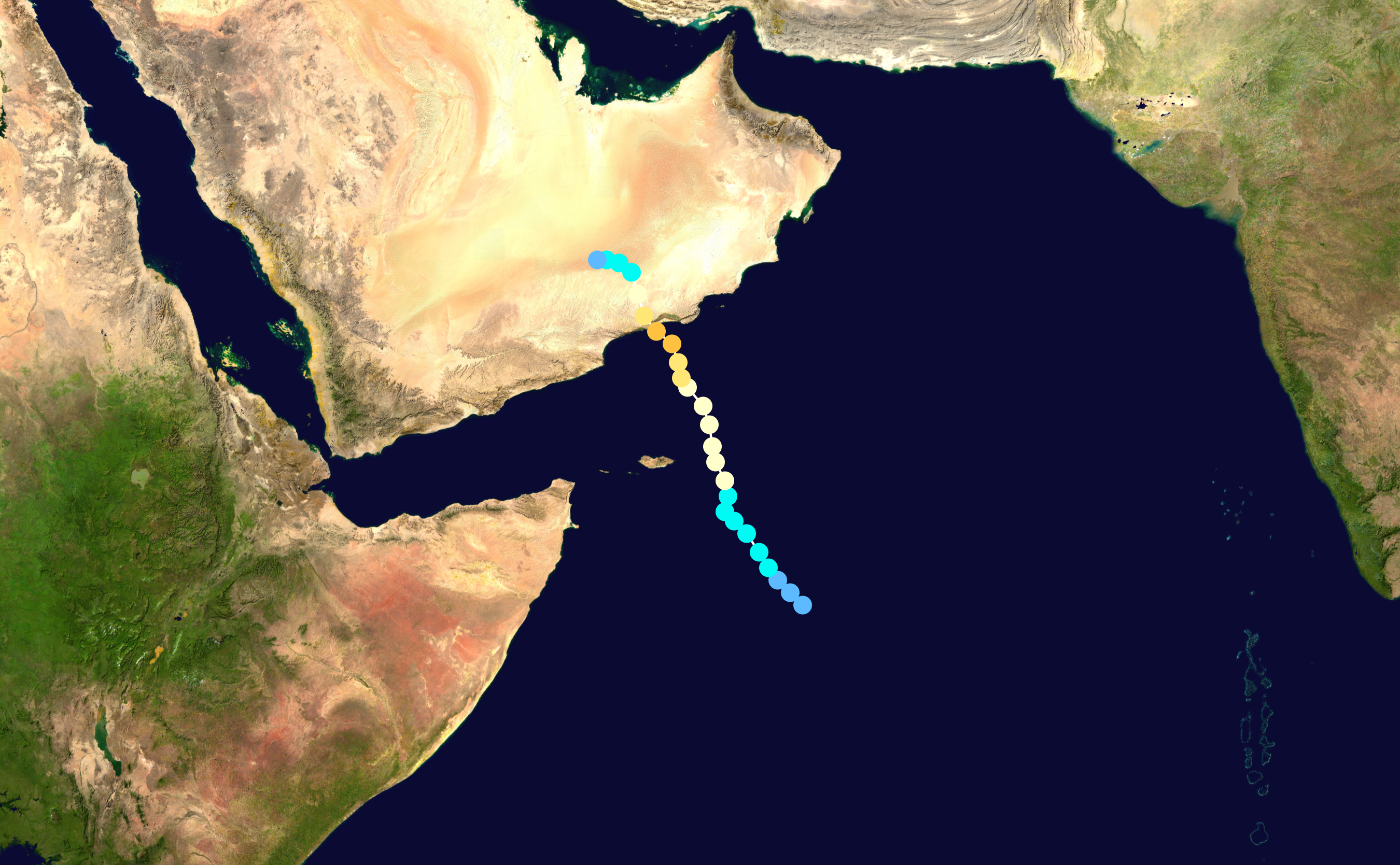 Track map of Extremely Severe Cyclonic Storm Mekunu of the 2018 North Indian Ocean cyclone season. The points show the location of the storm at 6-hour intervals. The colour represents the storm's maximum sustained wind speeds as classified in the Saffir–Simpson scale (see below), and the shape of the data points represent the nature of the storm, according to the legend below. Saffir–Simpson scale Tropical depression≤38 mph≤62 km/h Category 3111–129 mph178–208 km/h Tropical storm39–73 mph63–118 km/h Category 4130–156 mph209–251 km/h Category 174–95 mph119–153 km/h Category 5≥157 mph≥252 km/h Category 296–110 mph154–177 km/h Unknown Storm type Tropical cyclone Subtropical cyclone Extratropical cyclone / Remnant low / Tropical disturbance / Monsoon depression